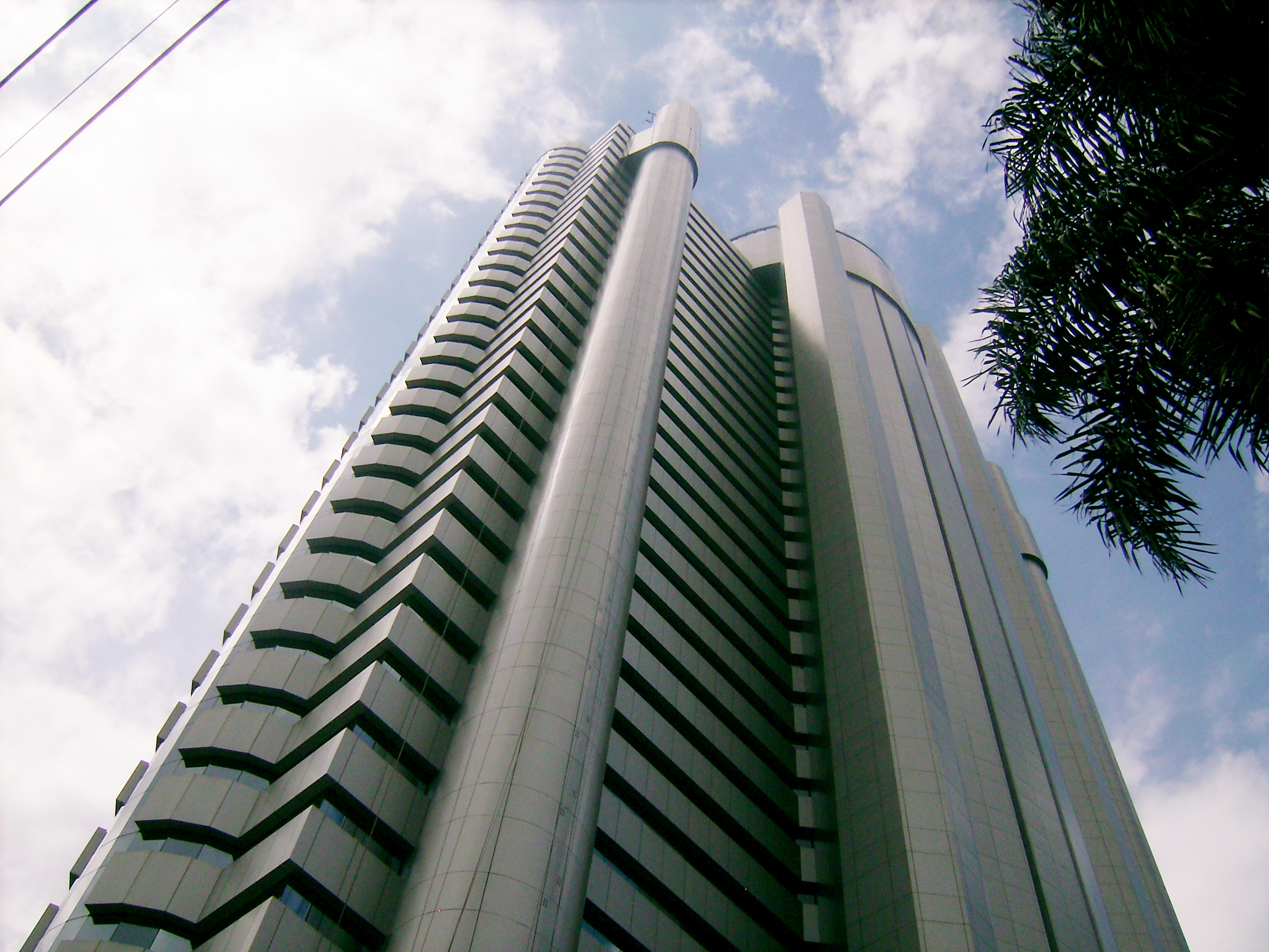 Plaza Centenário, Building, Sao Paulo